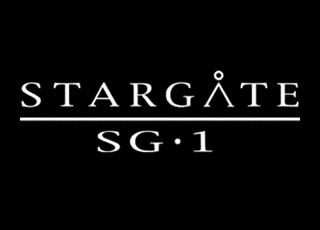 Stargate SG1 logo